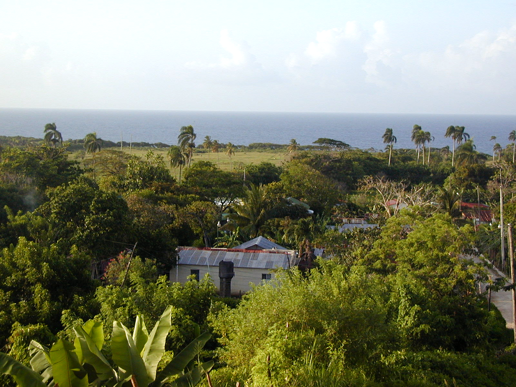 View from the hills of Abreu, the Dominican Republic